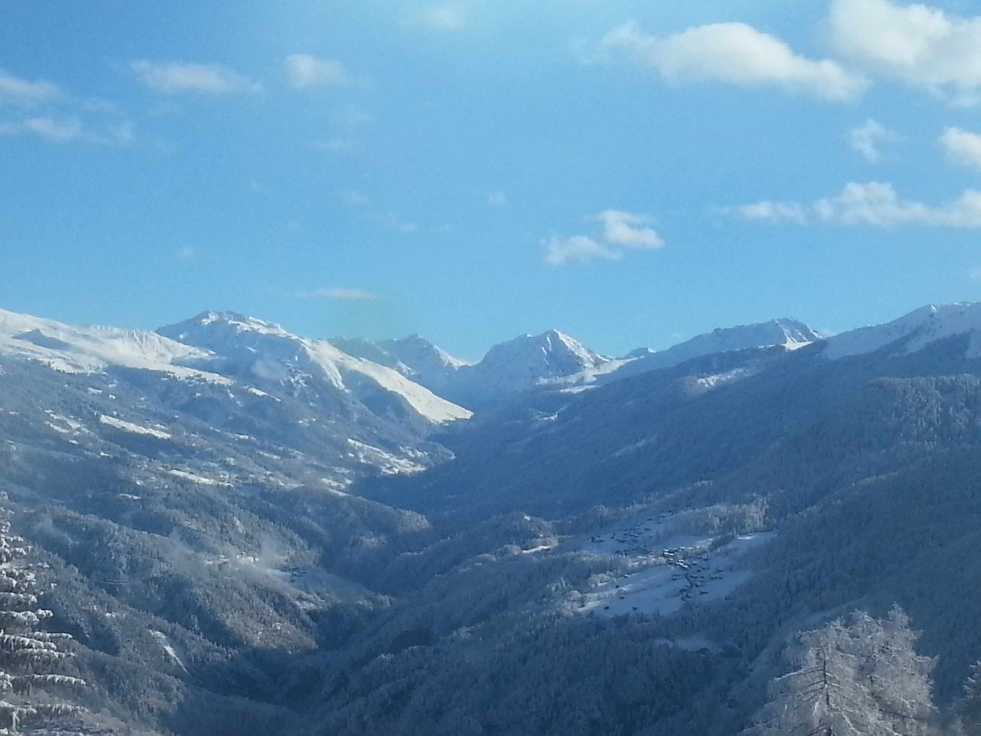 Schanfigg and the Mountains Weissfluh, Schiahorn, Strela, Chüpfenflue, Wannengrat and Mederger Flue as seen from Fülian (Brambrüesch), Grison, Switzerland